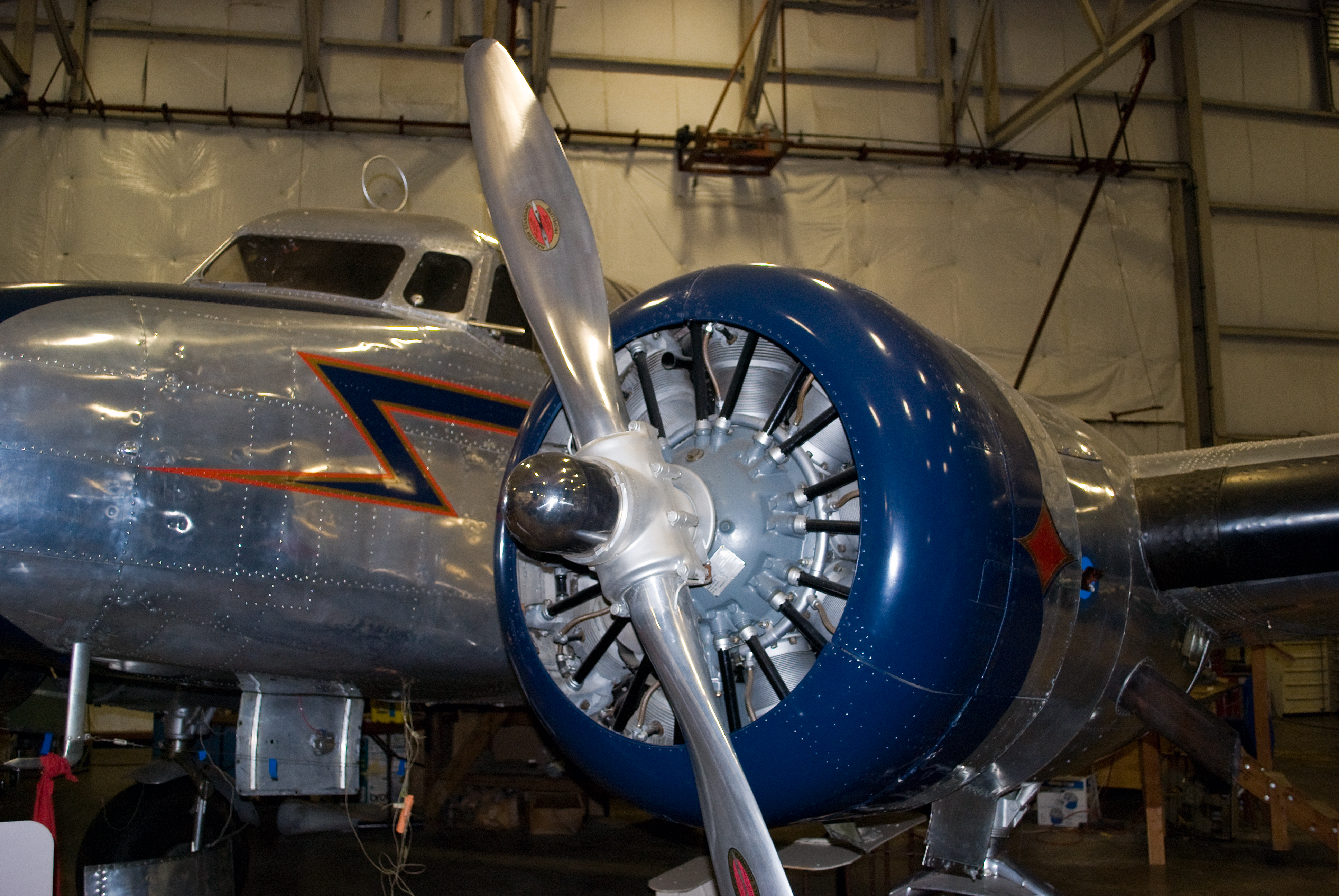 A Lockheed Electra 10A on display in the New England Air Museum. The Lockheed Model 10 Electra represented Lockheed's entry into the era of streamlined all-metal airplanes. This aircraft was used by various airlines in North and South America and in Europe. The prototype first flew on 23 February 1934. This example, serial no. 1052, was initially a U.S. Navy XR2O-1, delivered in February 1936 for use as a staff transport by the Secretary of the Navy. It has been repainted in the colors of Northwest Airlines, which was the first user of the Electra. The Lockheed Electra is perhaps most notable for being the aircraft type in which Amelia Earhart made her ill-fated attempt to fly around the world in 1937.